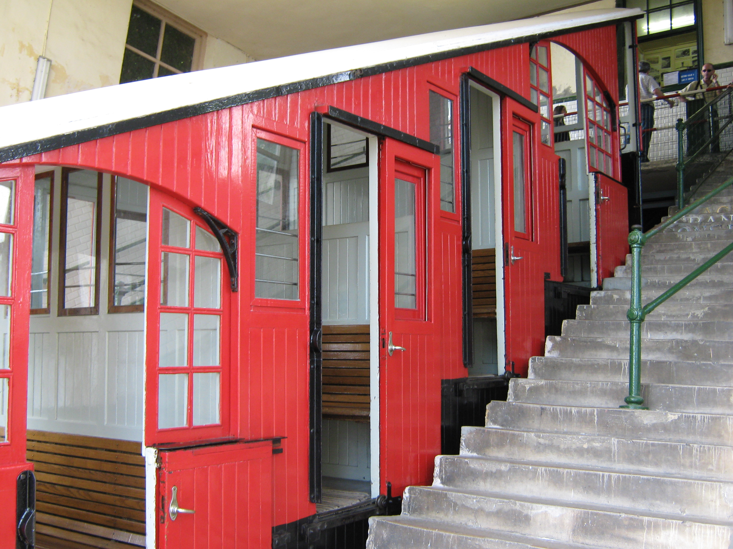 Monte Igeldo funicular at the top station (San Sebastian, Spain)